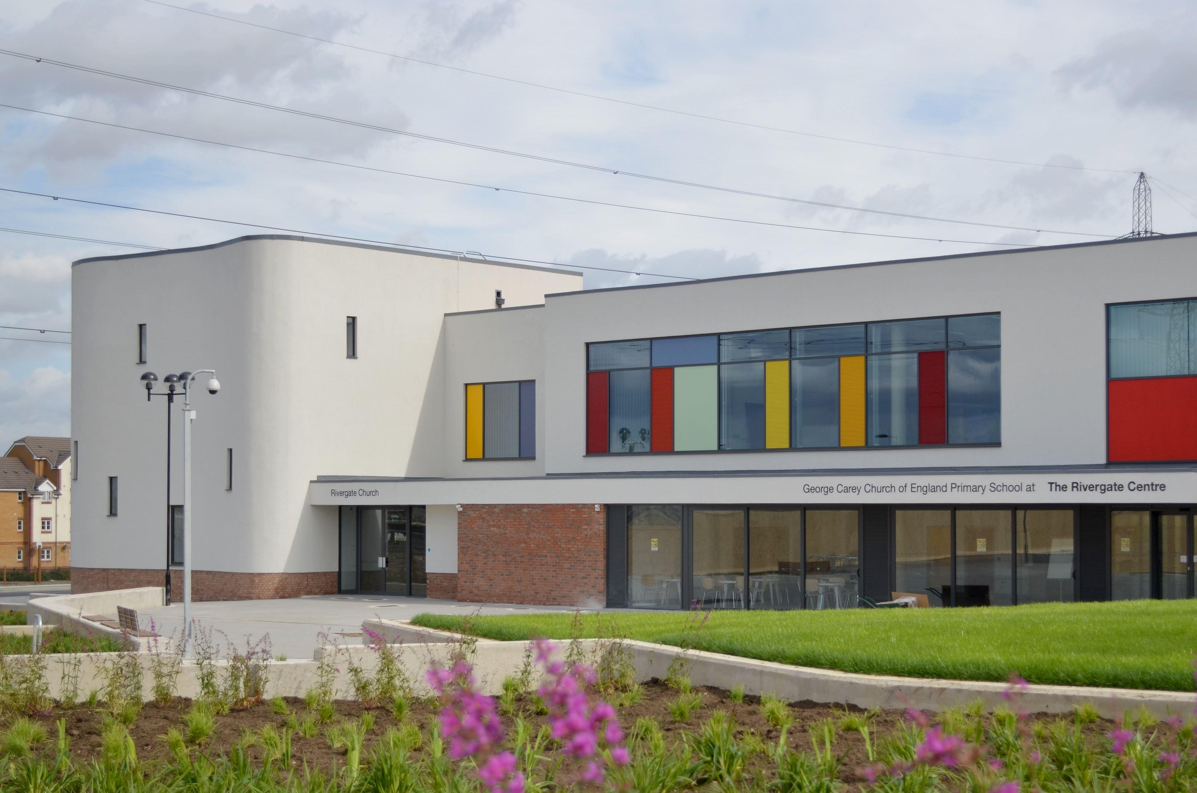 View of school and shared community entrance across new public square. Opened in 2011 and designed by van Heyningen and Haward Architects.